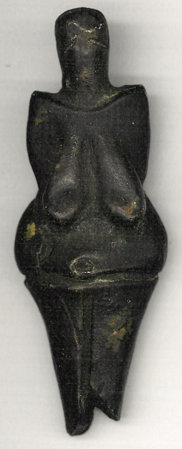 Scan of accurate museum reproduction of the Venus of Dolní Věstonice. (front view).